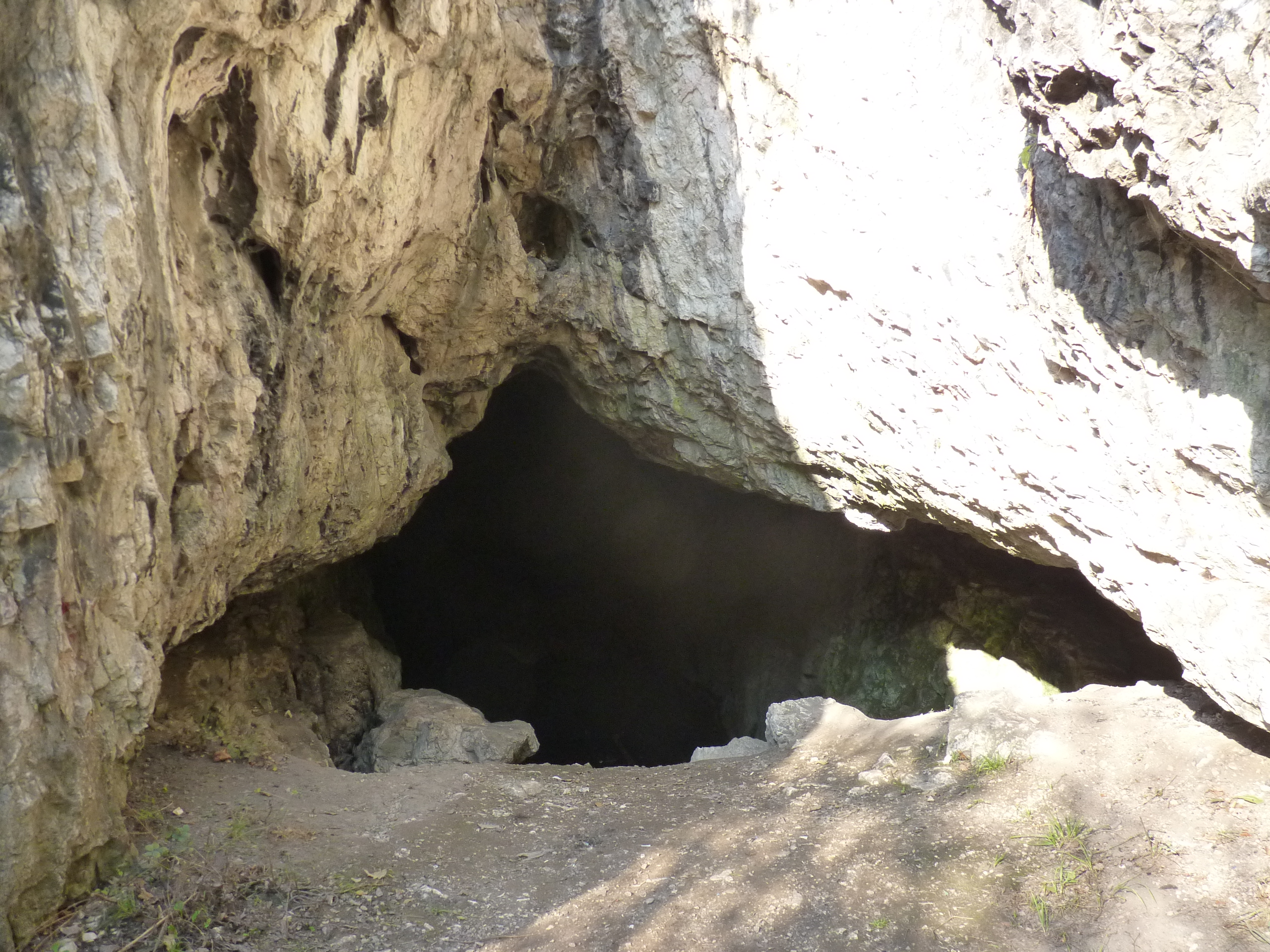 Remete Cave, Remete Valley